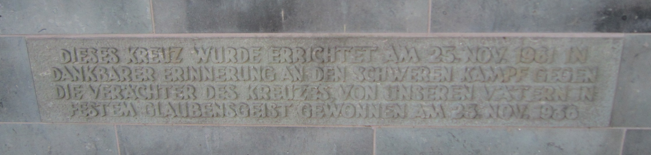 Inscription at the "Kreuzkampf" ("Battle for the cross") Memorial in Cloppenburg (Lower Saxony)